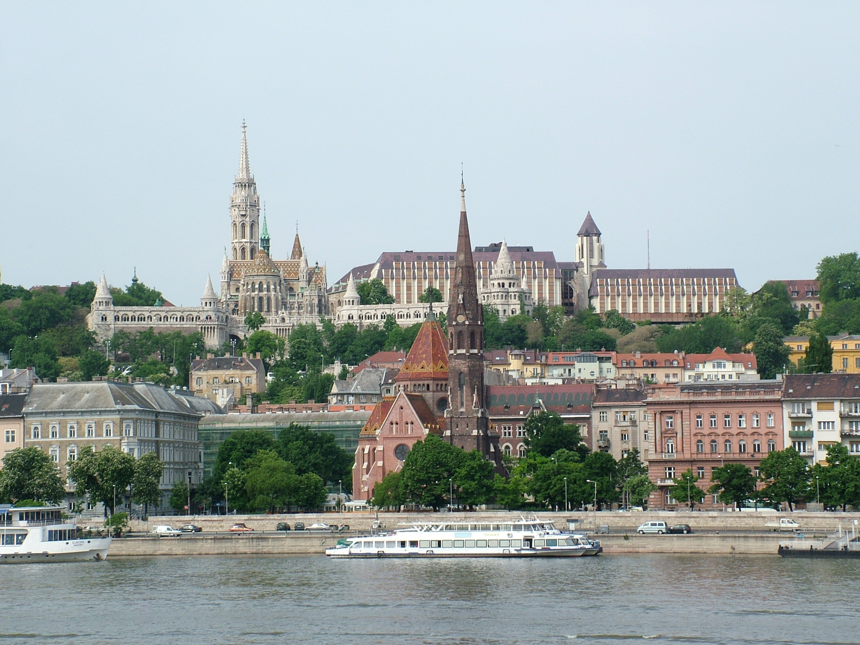 The Halászbástya or Fishermen's Bastion is a terrace in neo-gothic style situated on the Buda bank of the Danube, on the Castle hill in Budapest, around Matthias Church.